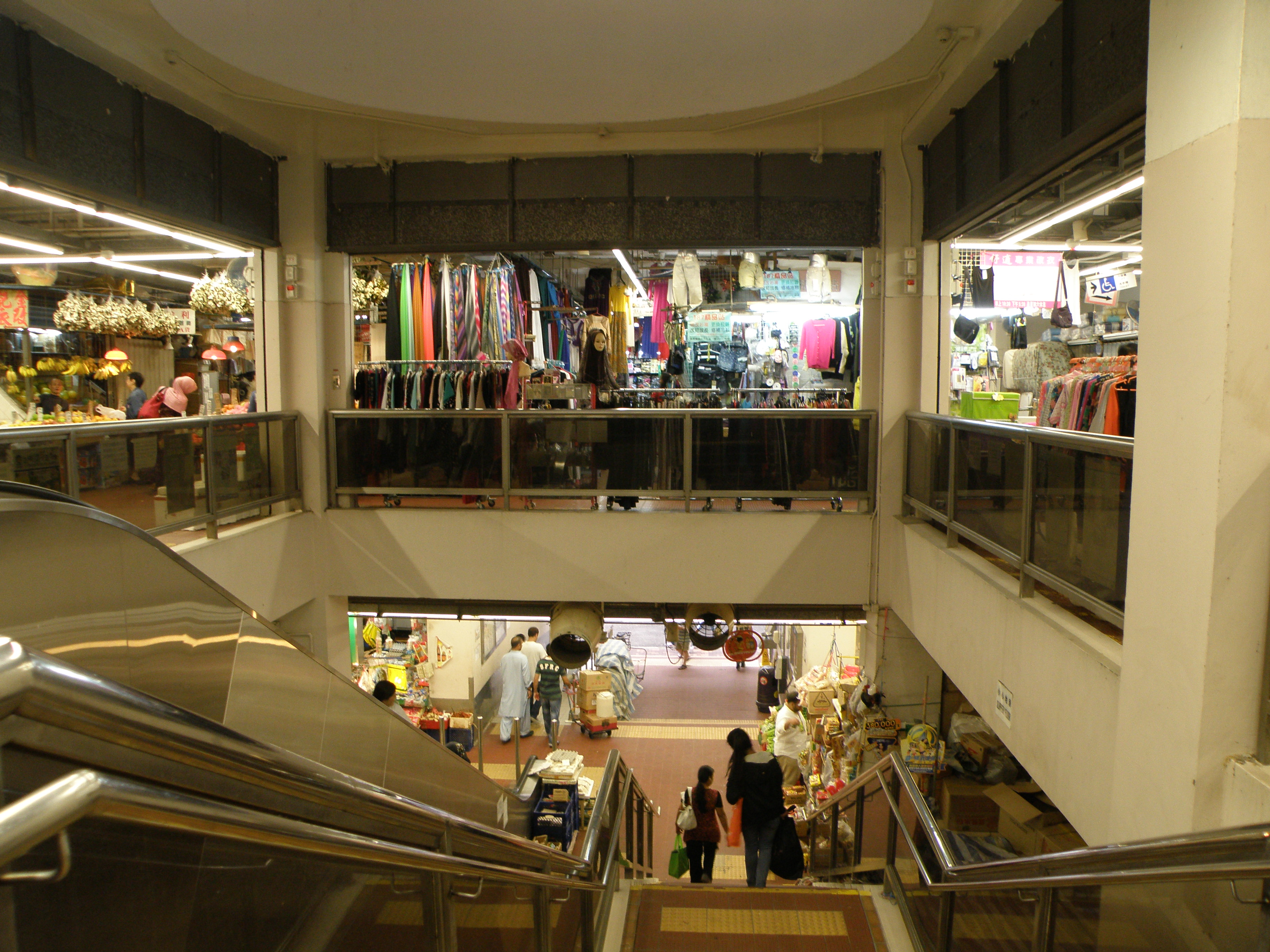 Bowrington Road Market in Causeway Bay, Hong Kong.